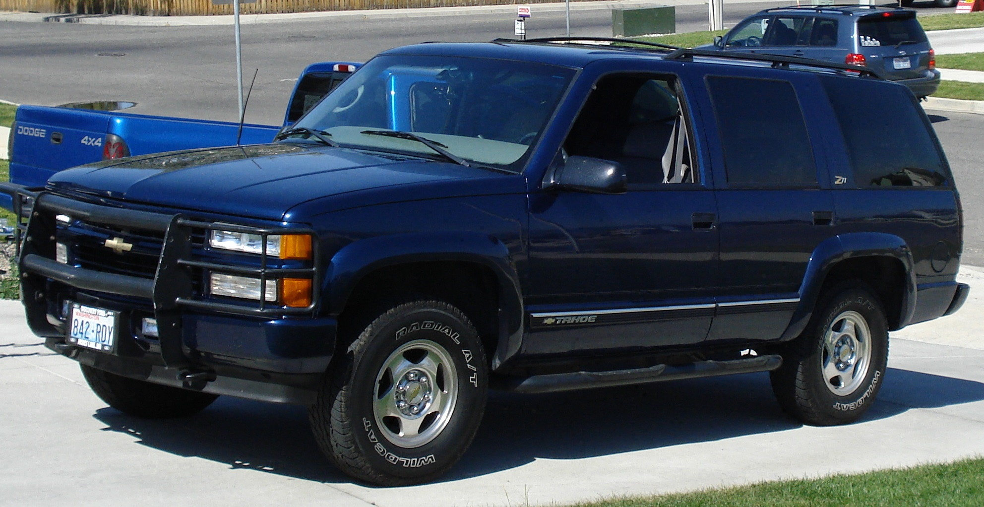 Right After I Bought My 2000 Chevrolet Tahoe Z-71 Special Edition